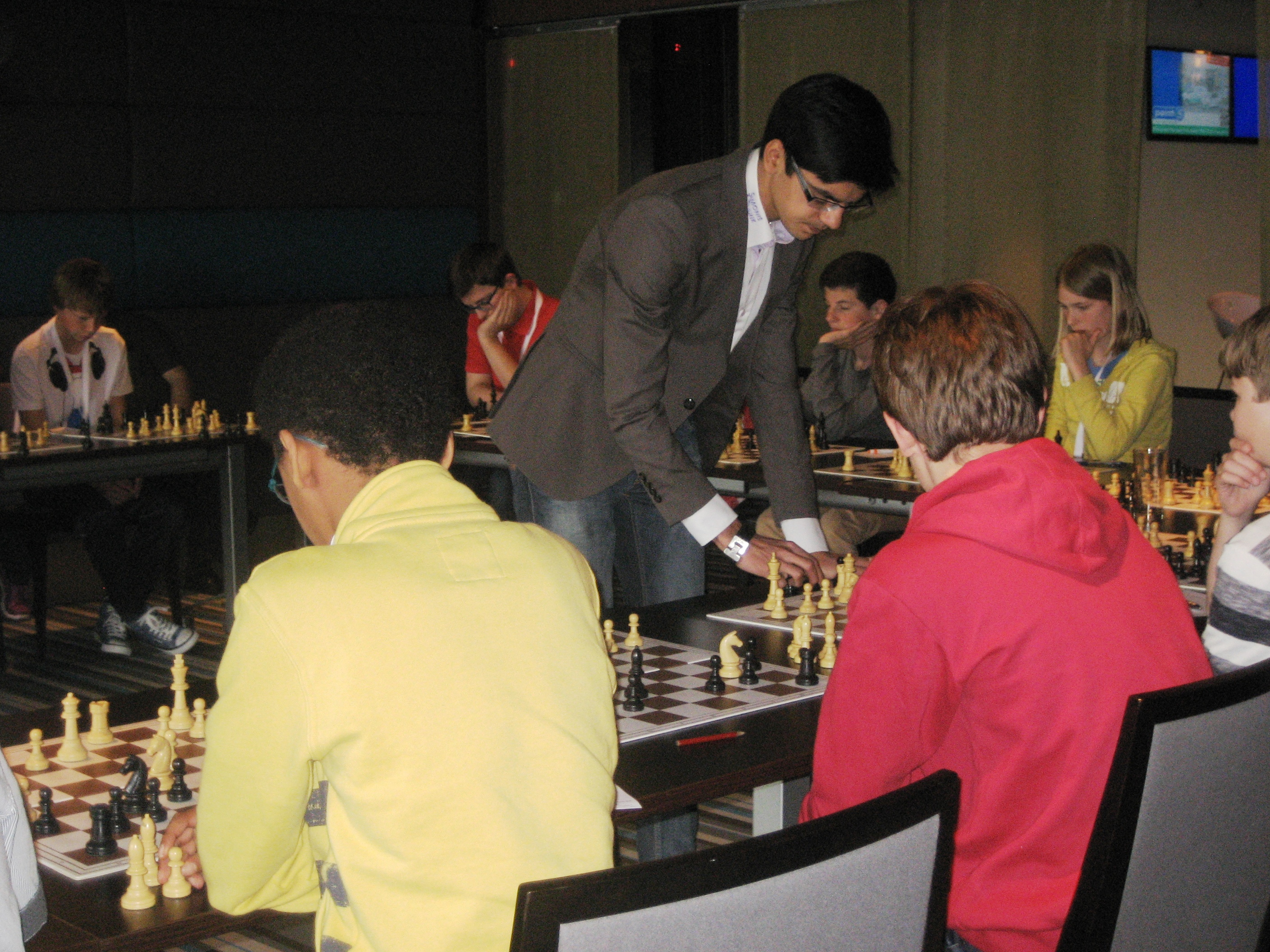 Chess player Anish Giri giving a simultaneous exhibition in Rotterdam (The Netherlands), April 2014.